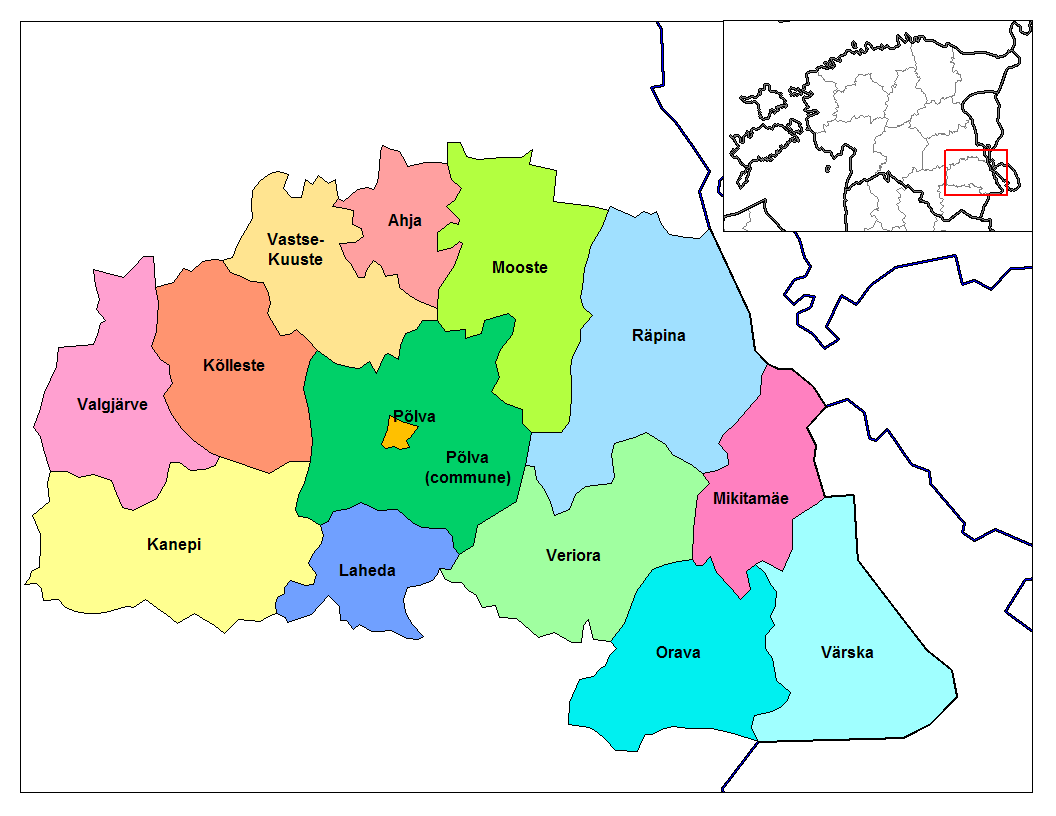 Map of the municipalities of Polva county in Estonia. Created by Rarelibra 17:34, 22 December 2006 (UTC) for public domain use, using MapInfo Professional v8.5 and various mapping resources.